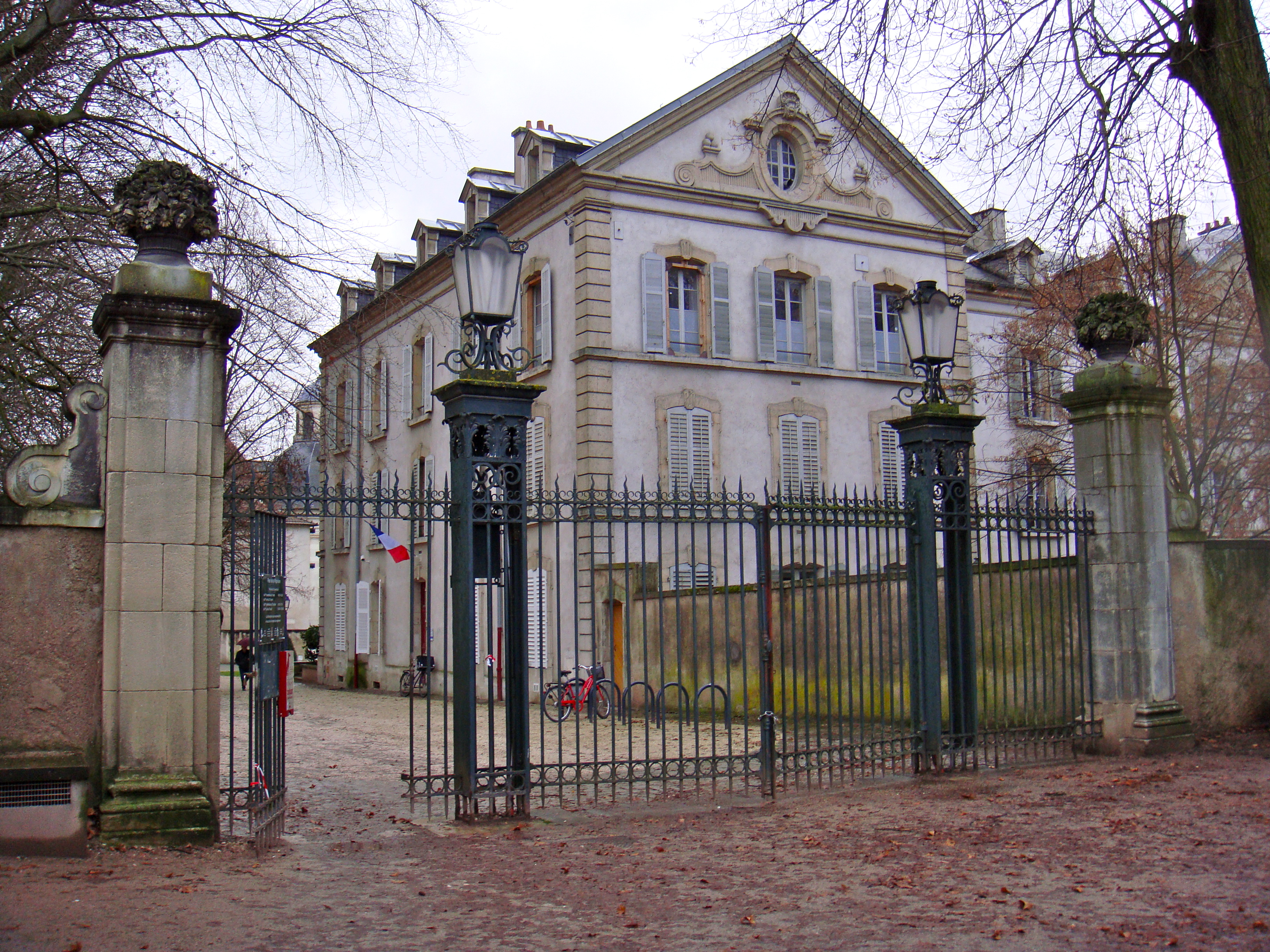 Nancy